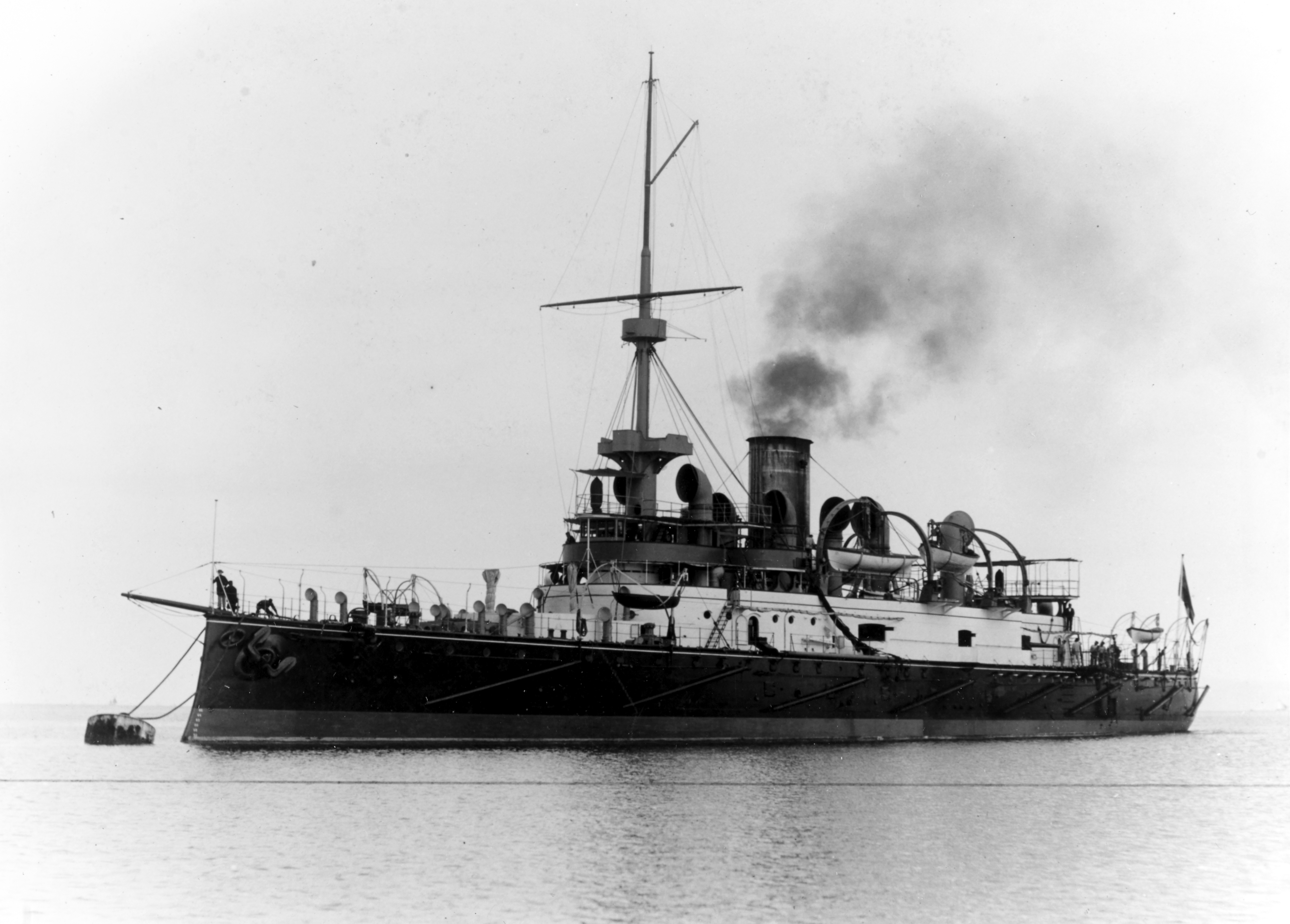 Title: WIEN (Austrian coast defense battleship, 1895-1917) Caption: Photographed by B. Circovich of Trieste, in a print obtained by the U.S. Navy's Office of Naval Intelligence in Washington, District of Columbia. This ship was launched on 7 July 1895 and commissioned on 13 May 1897.